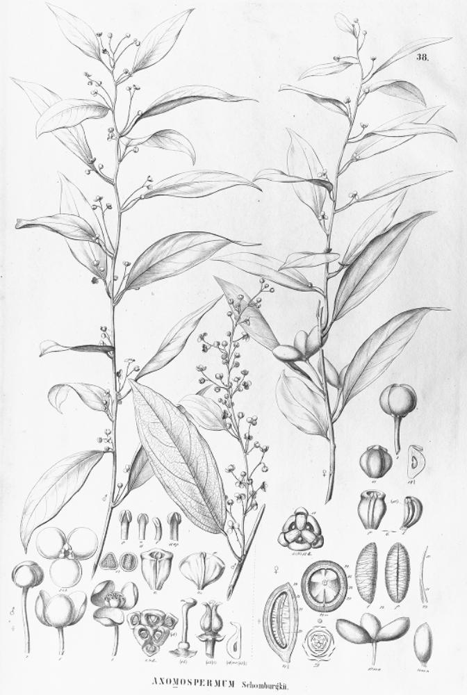 Illustration of Anomospermum schomburgkii (= Orthomene schomburgkii)